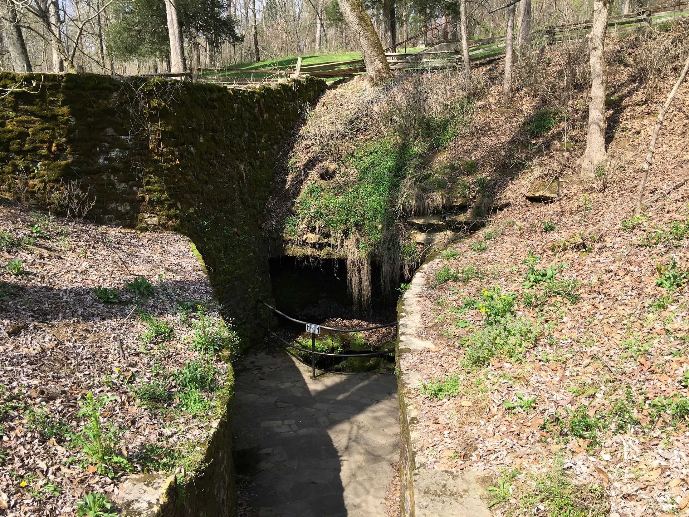 A photo of the sinking spring in Abraham Lincoln Birthplace National Historical Park.